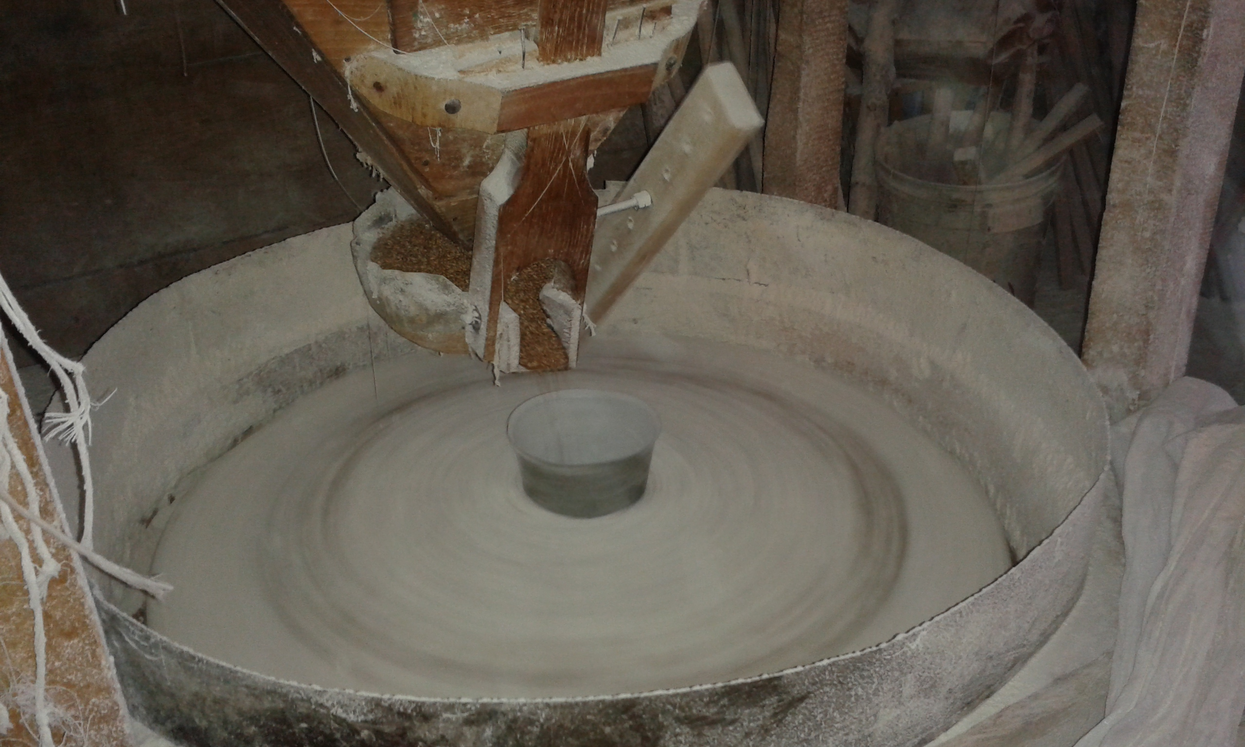 Stone mill in the watermill on the river Gradac